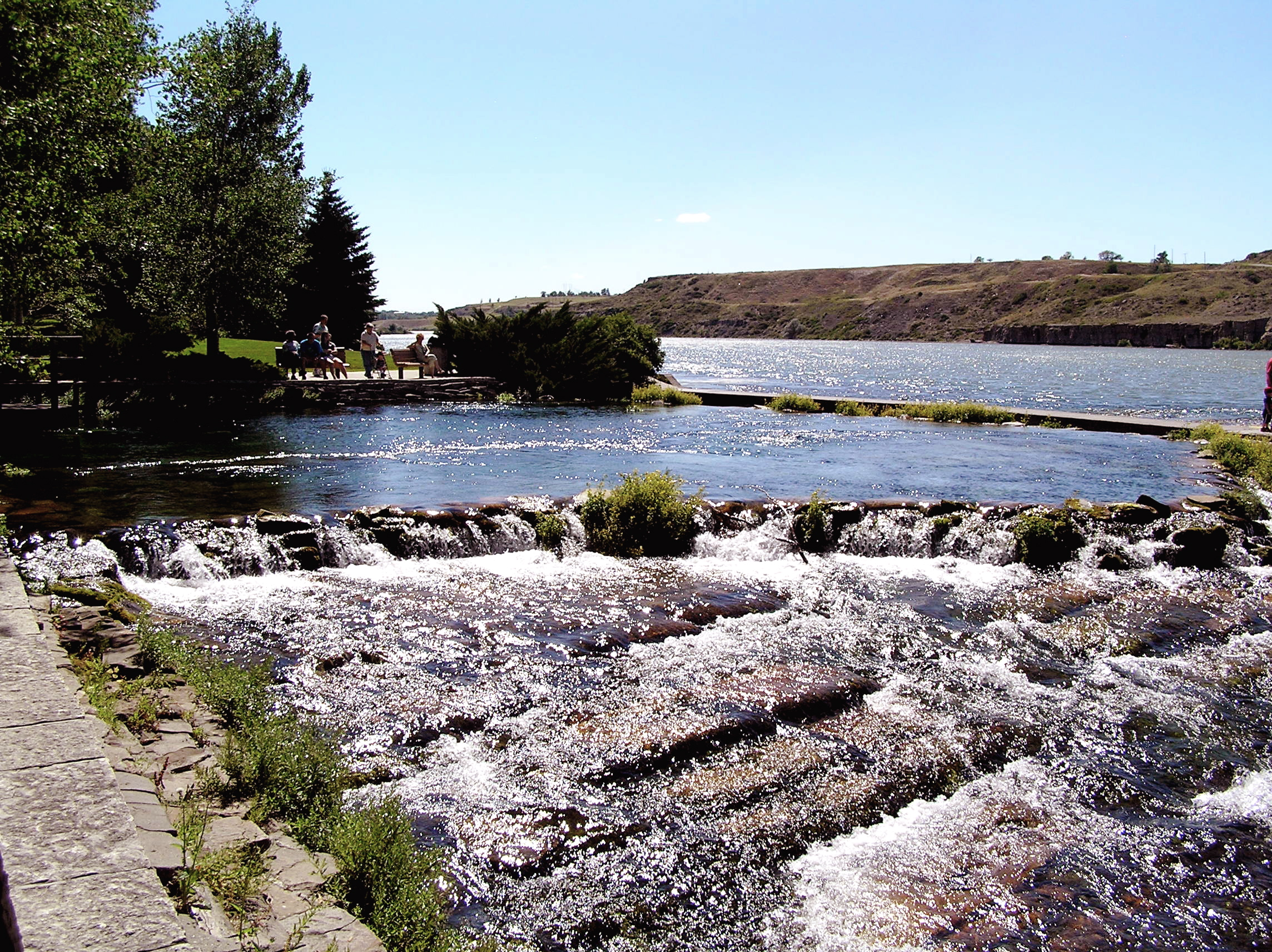 Roe River flowing from Giant Springs into the Missouri River — in Giant Springs State Park in Great Falls, Montana. The karst spring has a very large catchment area between Little Belt Mountains and the spring. The subterranean conduit is a geological stratum of thick, mostly carbonate, rocks, called Madison Limestone.